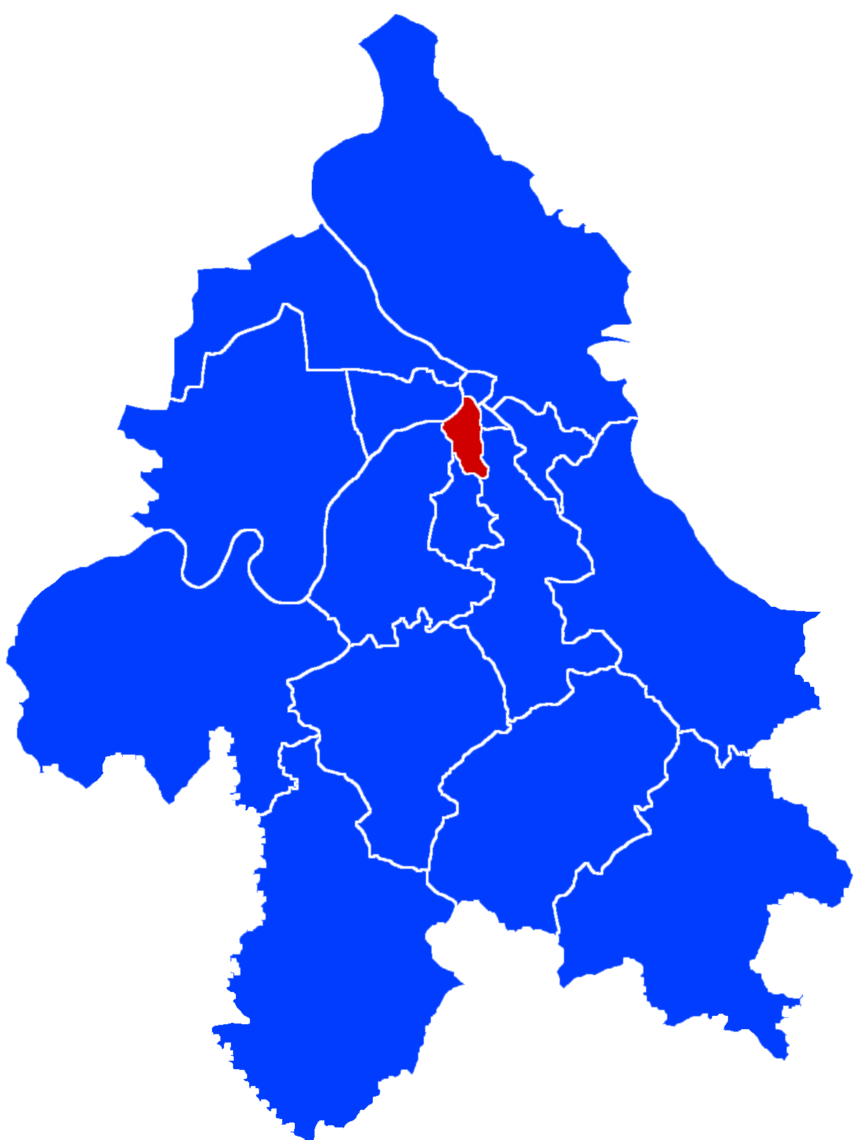 The graphical representation of the municipality of Savski Venac within the city of Belgrade